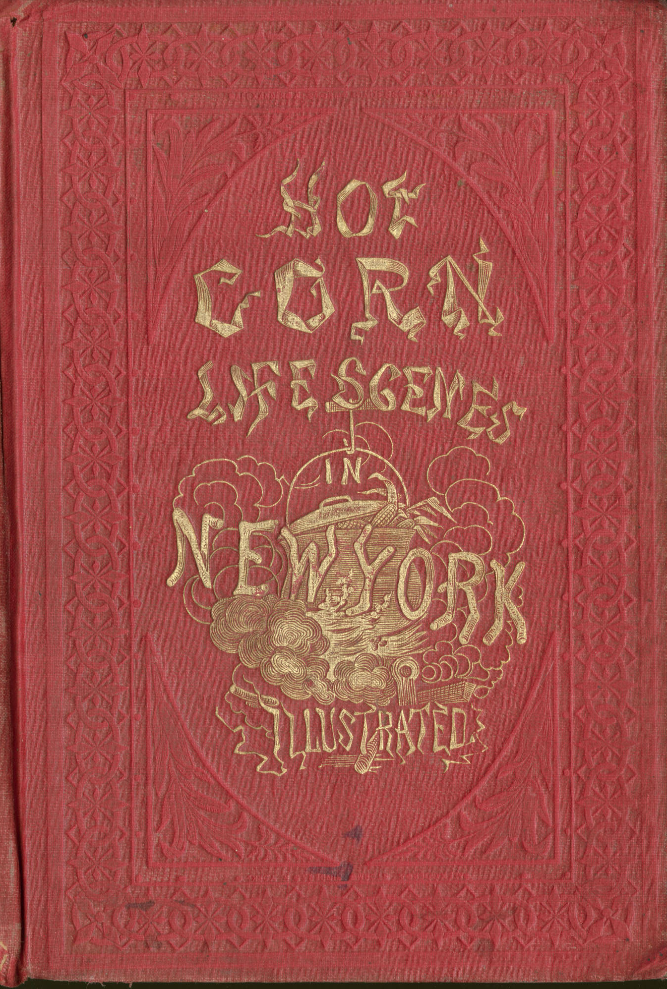 Cover of 1854 short story collection "Hot Corn: Life Scenes in New York Illustrated"